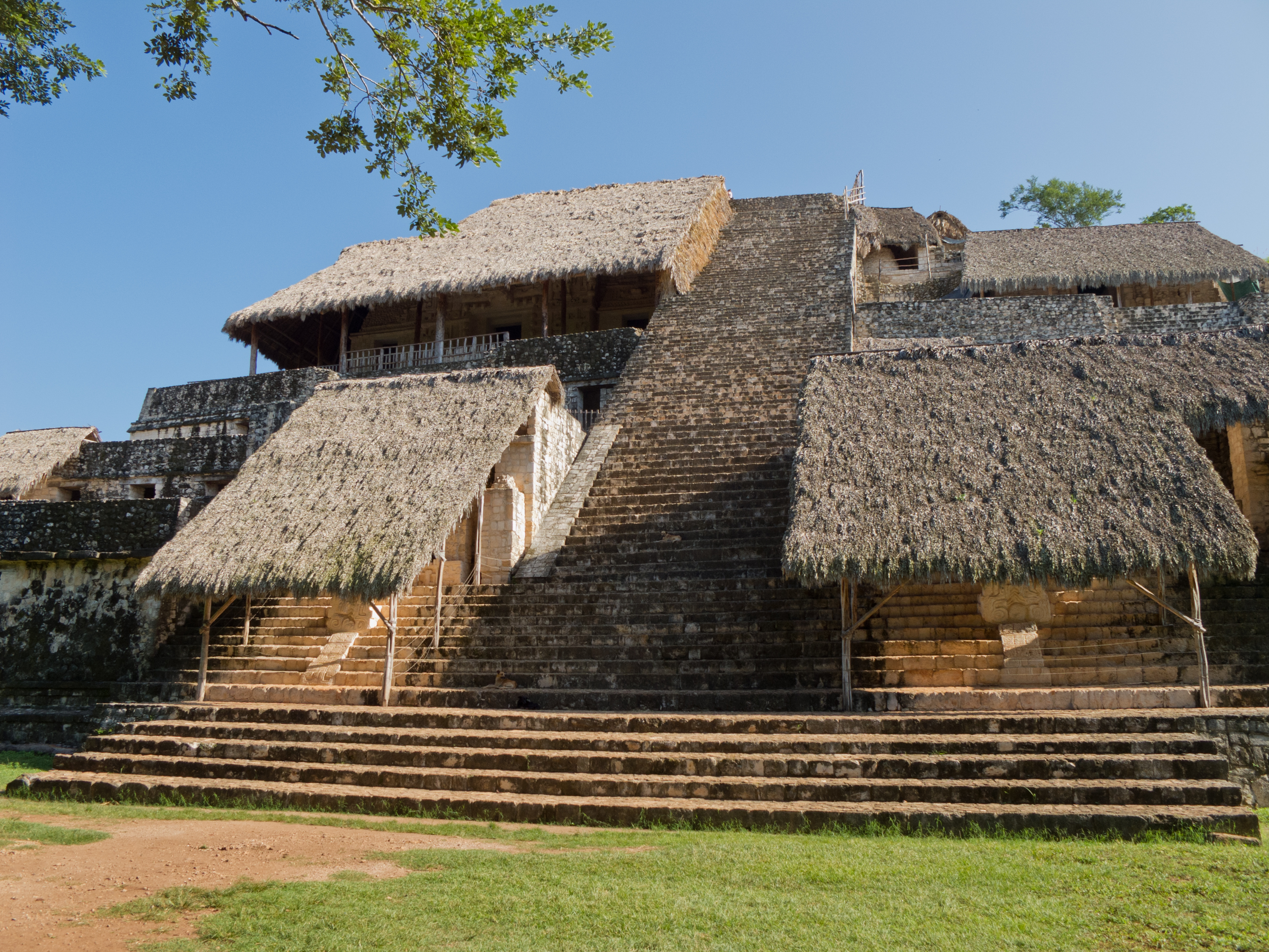 Ek' balam, Yucatán, Mexico.